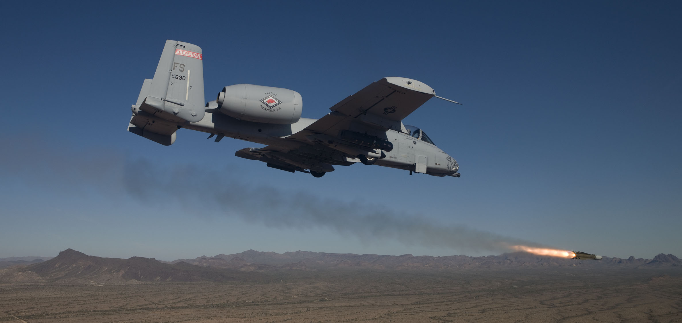 An A-10C Thunderbolt II conducts close-air support training near Davis-Monthan Air Force Base, Arizona, USA. The A-10C is with the 188th Fighter Wing, Arkansas Air National Guard.